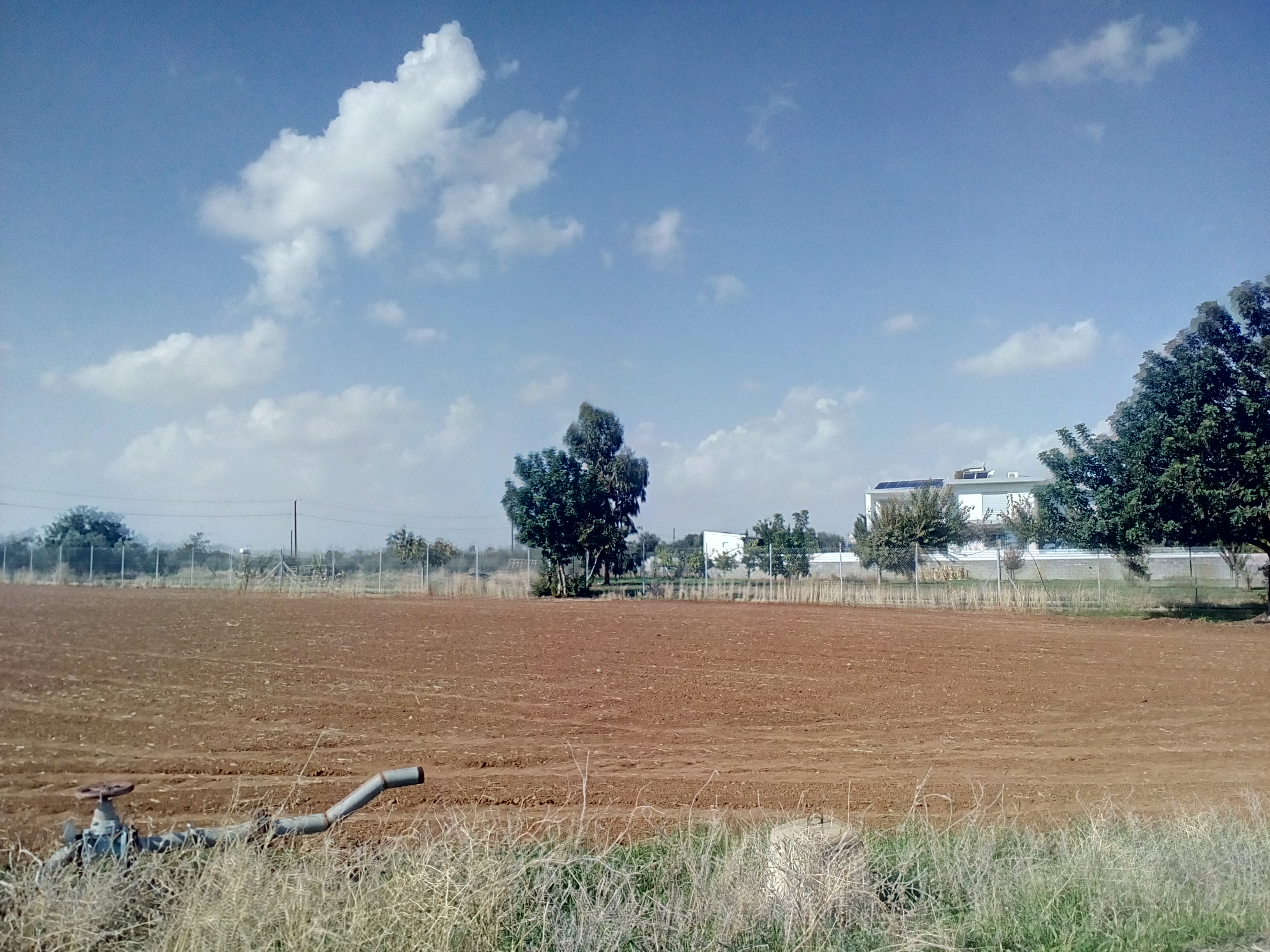 Cultivations in Ypsonas Industrial Area, Ypsonas, Limassol, Cyprus.